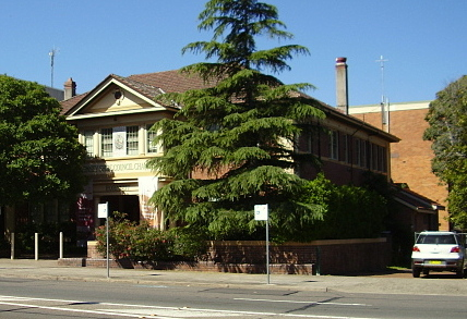 Hornsby Shire Chambers, Sydney